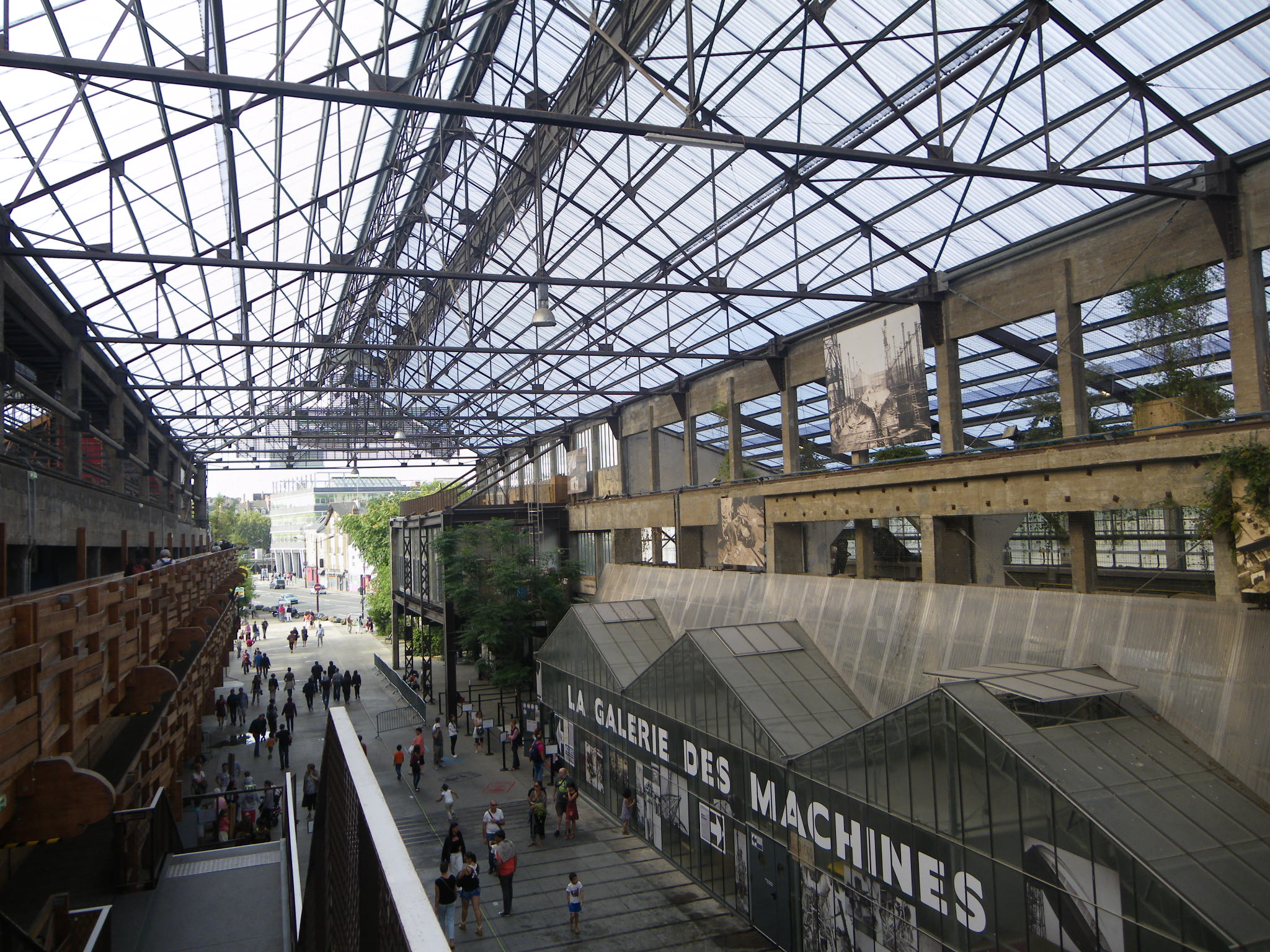 La-Galerie-des-Machines in Nantes